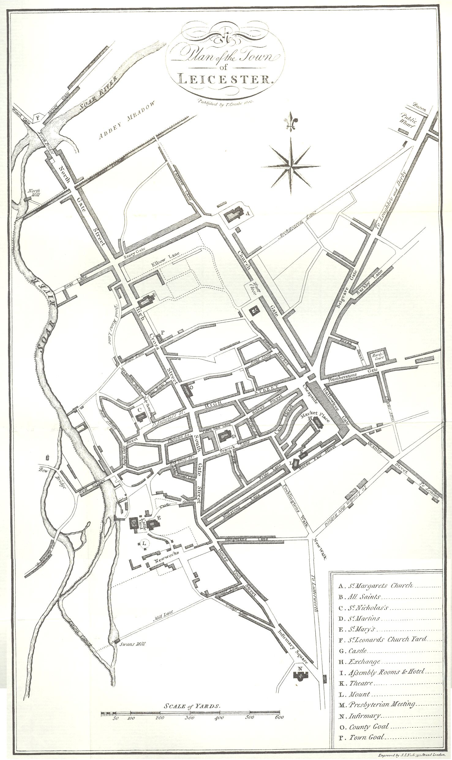 Map of Leicester in 1804 from A Walk through Leicester by Susanna Watts